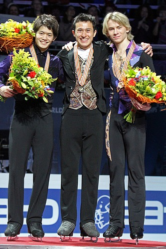 Takahiko KOZUKA, Patrick CHAN and Artur GACHINSKI at the 2011 World Figure Skating Championships